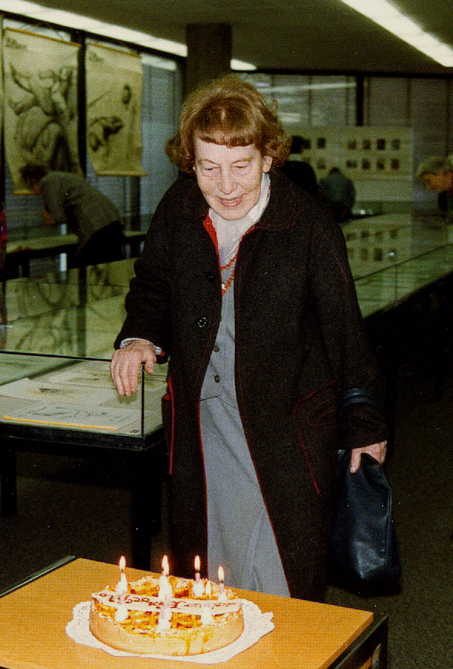 Portrait of Martha Pfannenschmid (1900-1999), photo